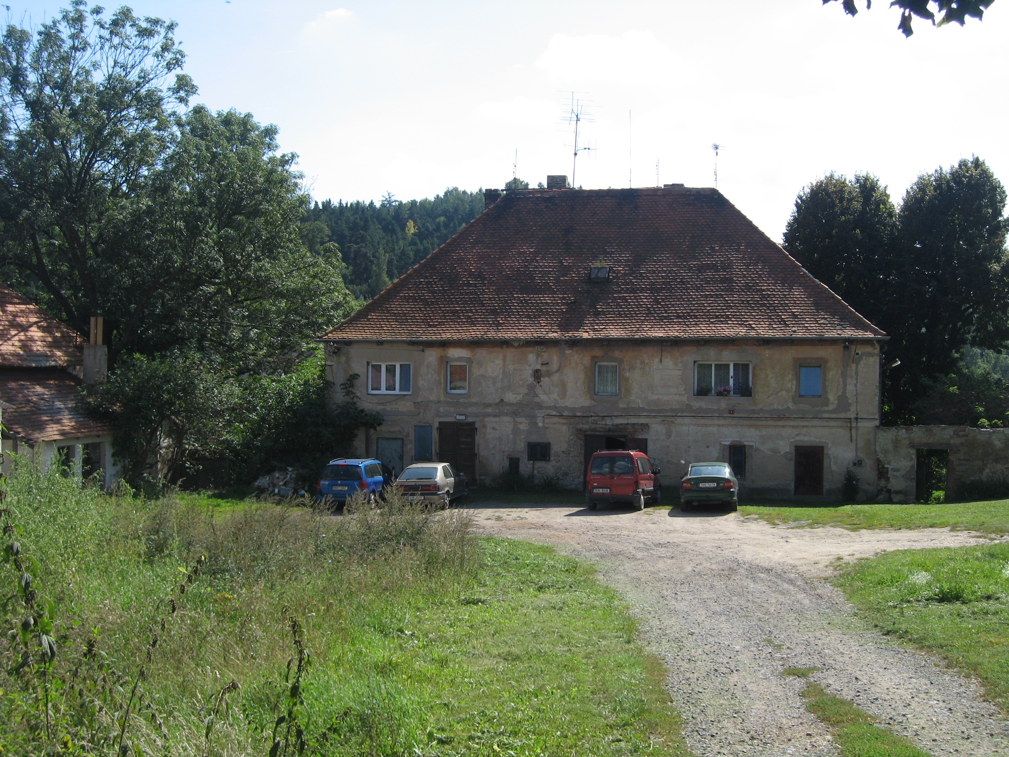 Brodec (Czech Republic) - Former Castle